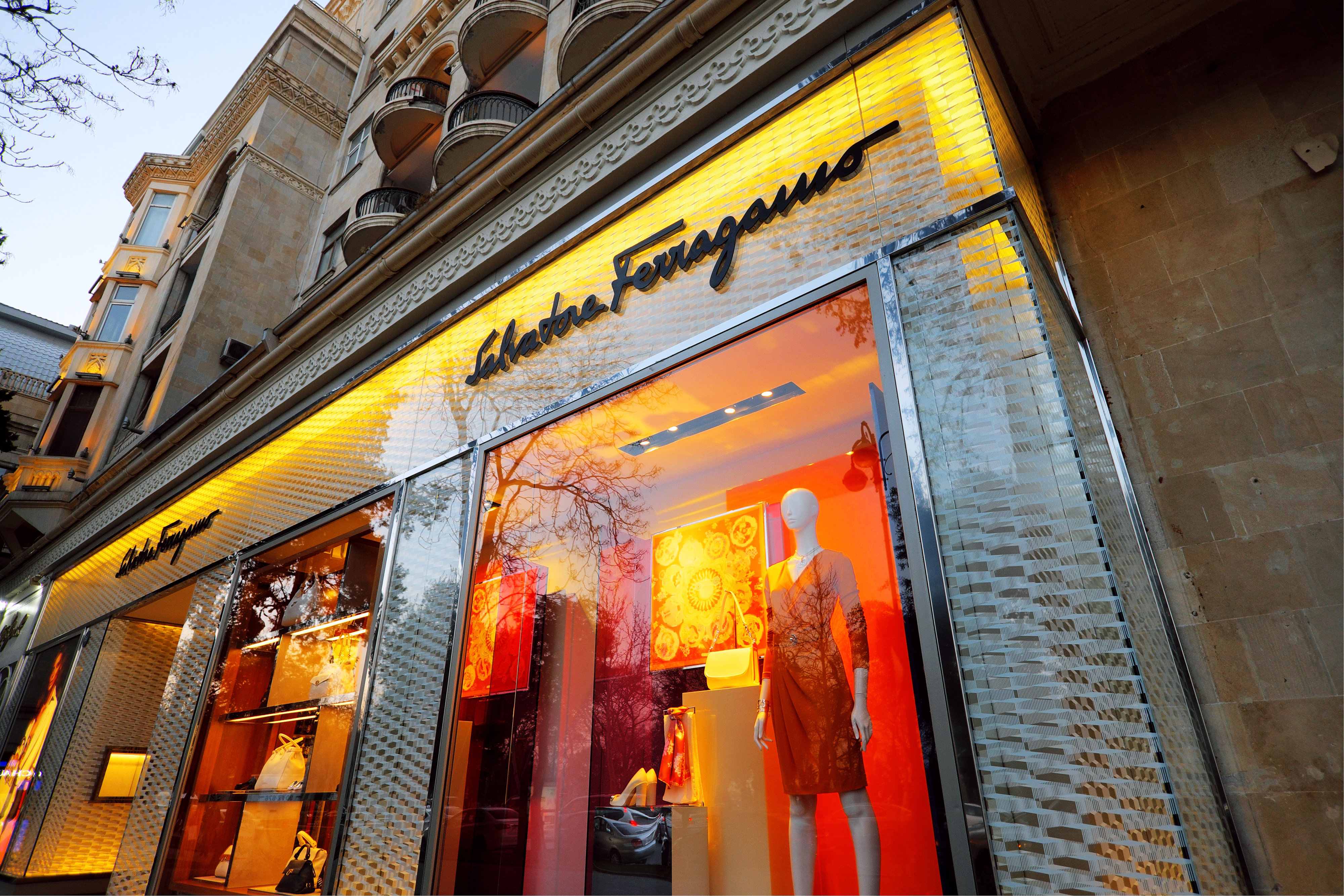 Salvatore Ferragamo Baku Shop